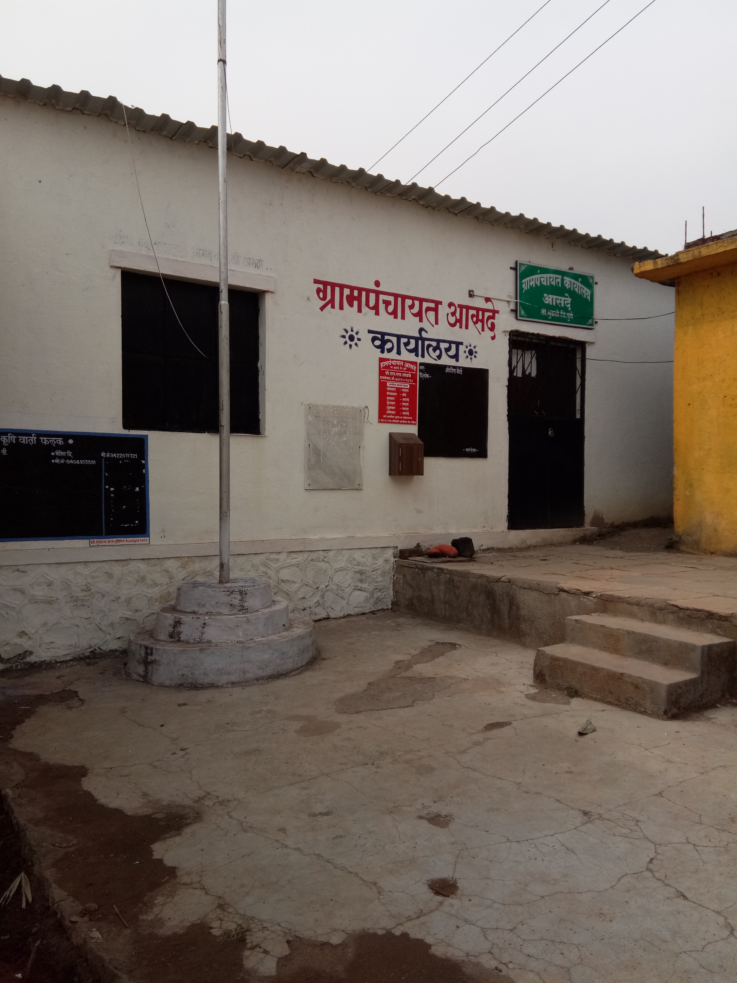 photograph